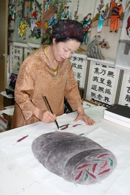 서예작품 작가의 작품 중에서